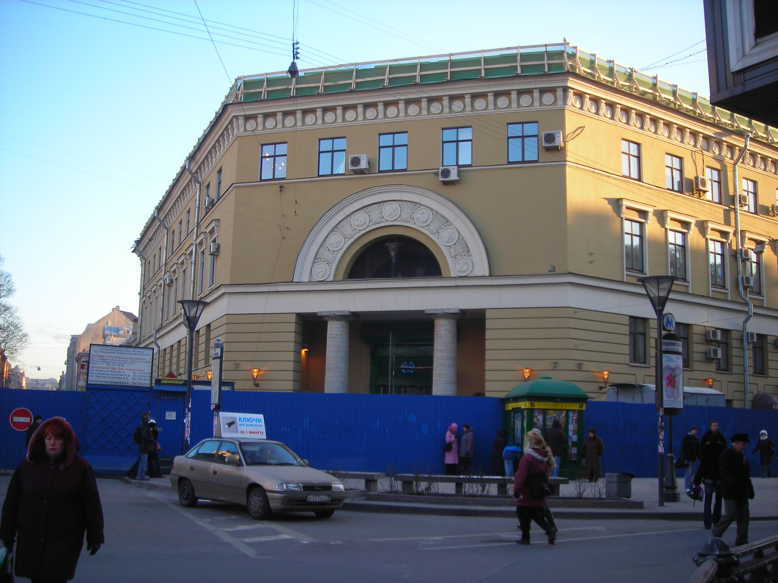 Pavilion of metrostation «Vladimirskaya», Spb